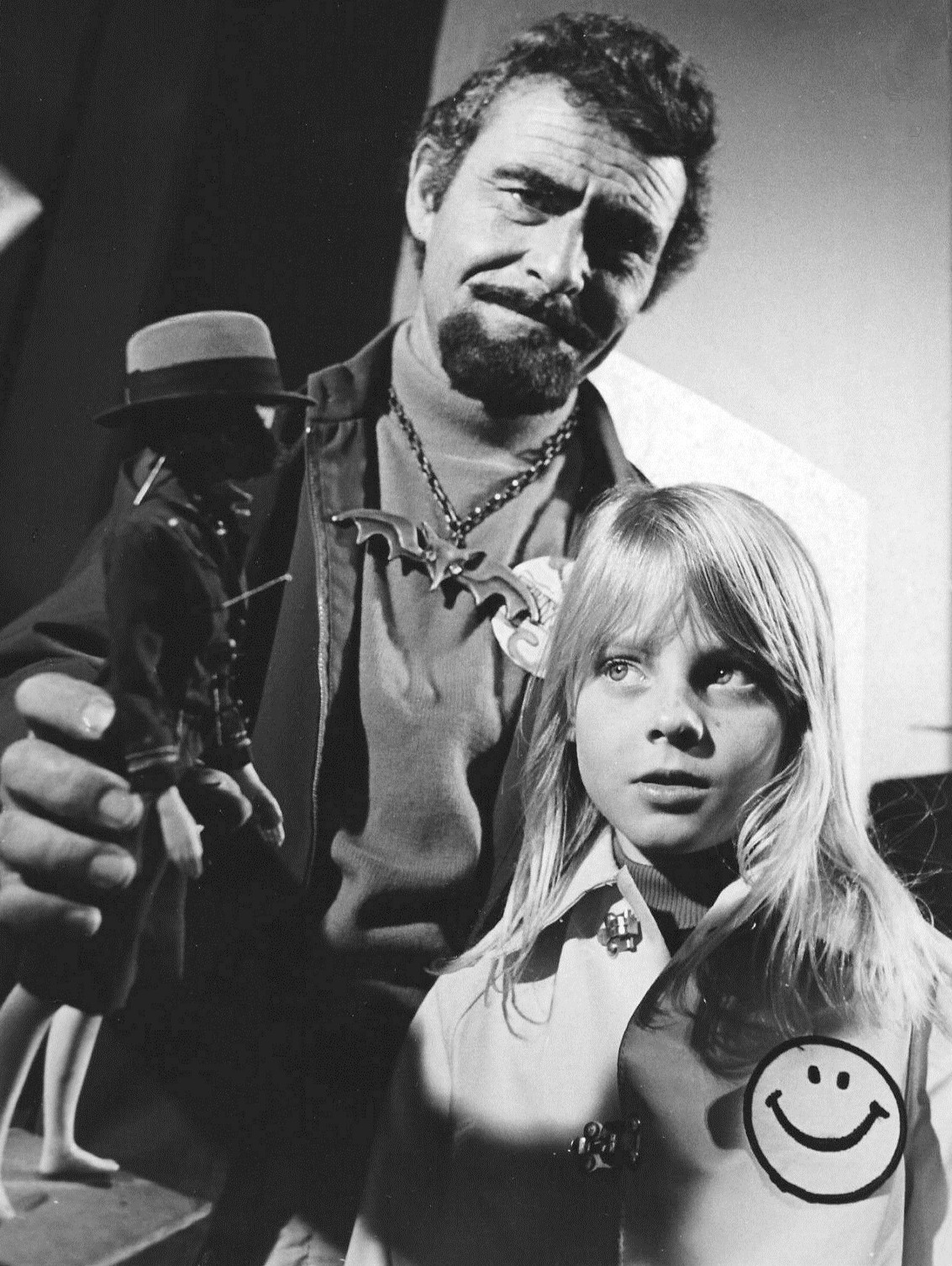 Photo from the television program Ironside. In a rare television acting role, Rod Serling plays the owner of a magic shop who sells a potion kit to a young girl (Jodie Foster) who's starting to dabble in witchcraft.